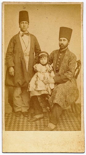 Persians in Astrakhan